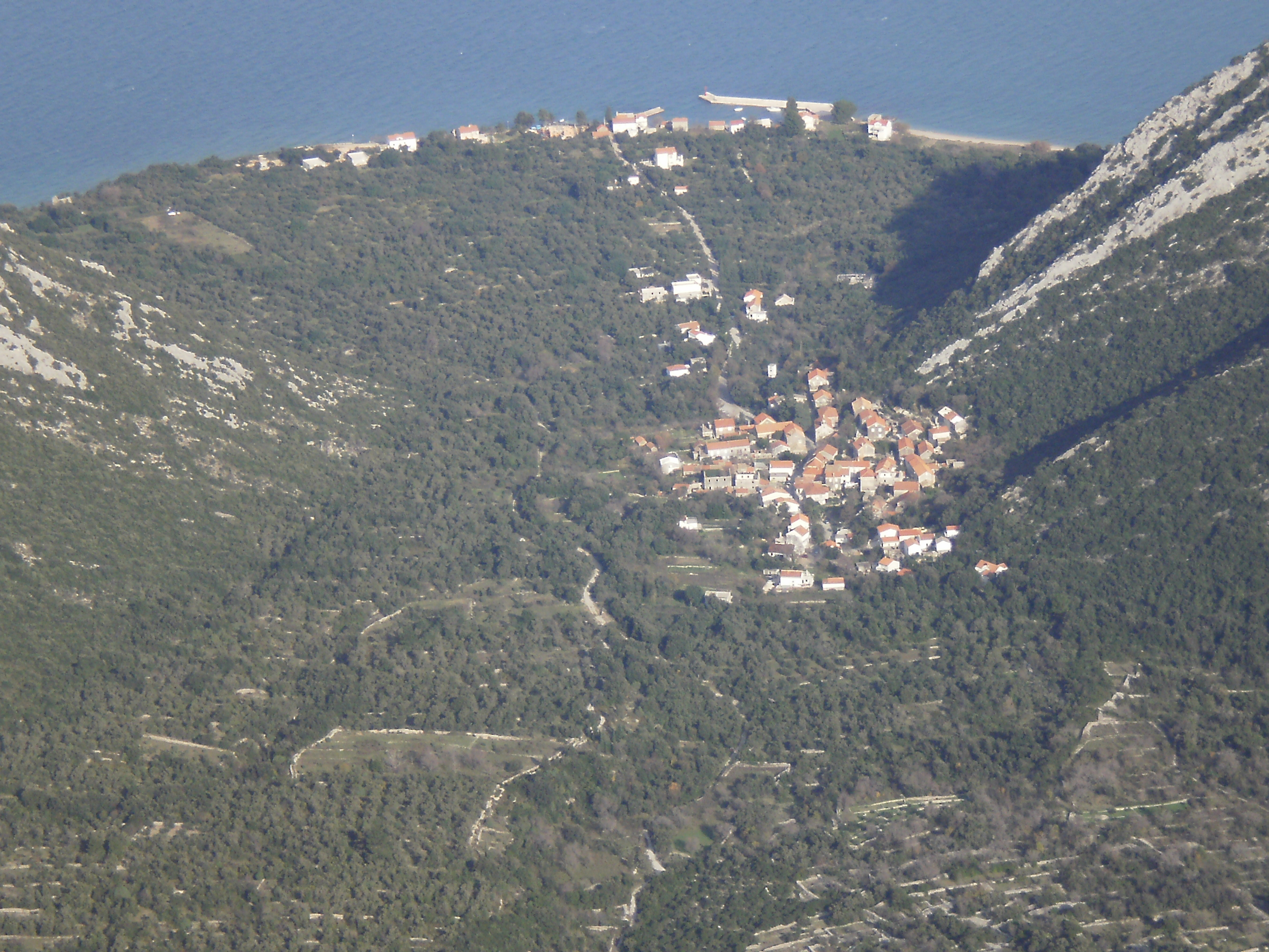 Panorama photo of Peliška Duba, from St. Elijah hill OLYMPUS DIGITAL CAMERA